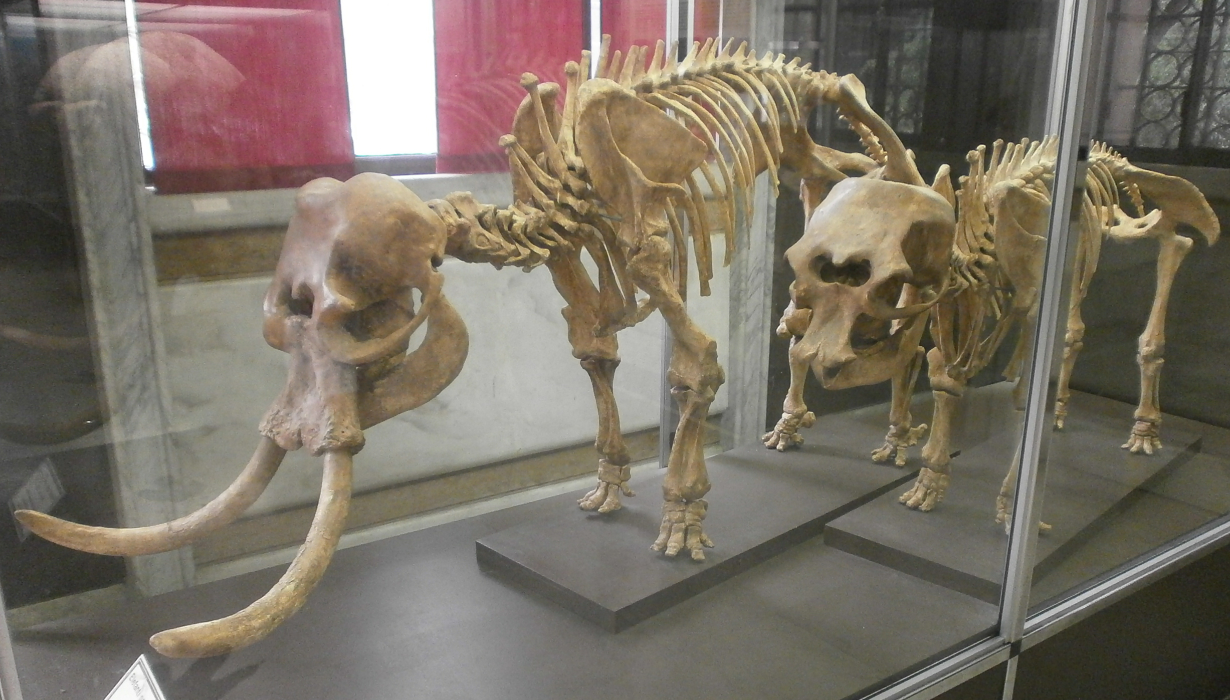 Natural History Museum of Milan - Elephas falconeri